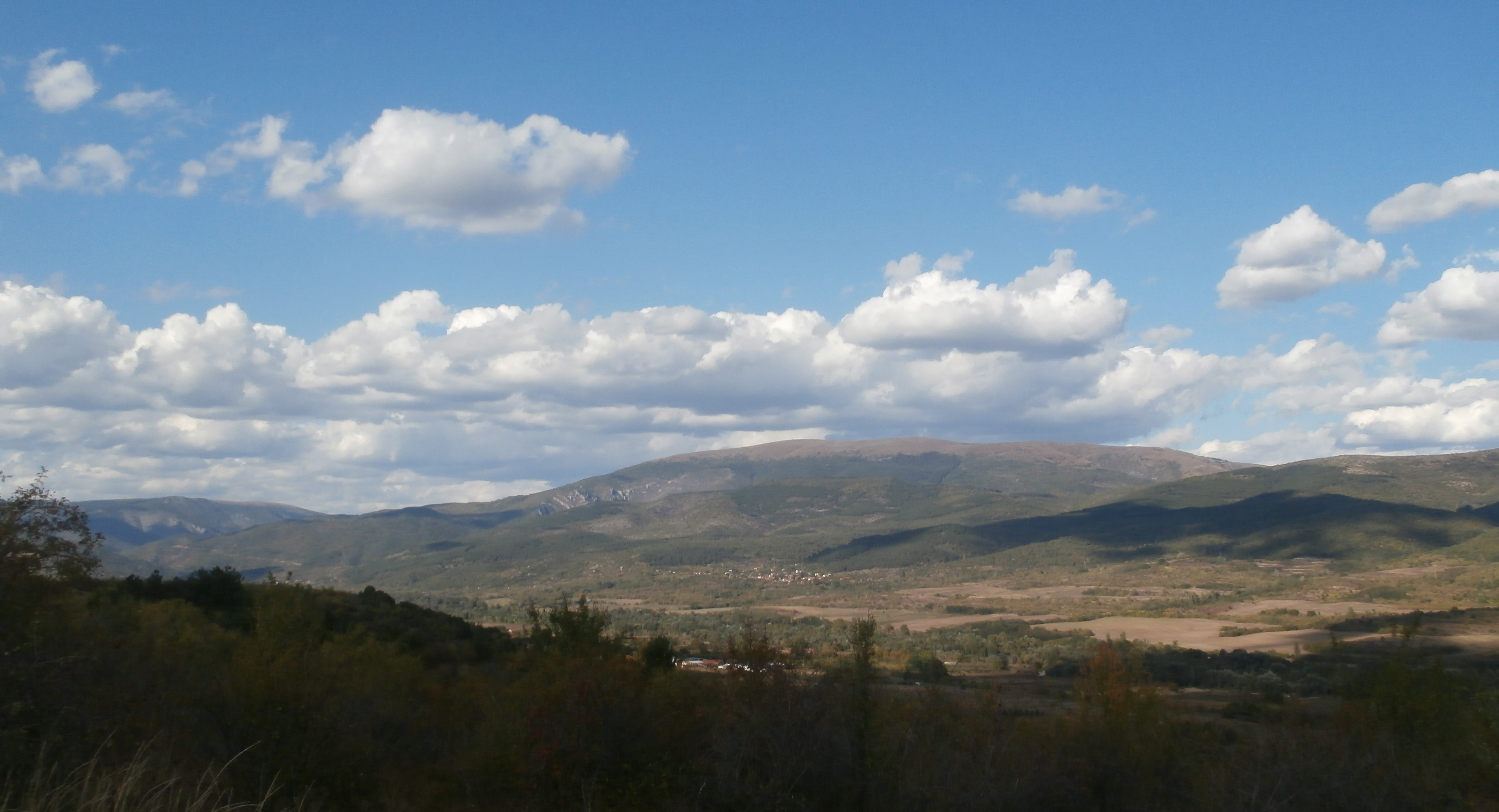 view of the medieval Zemengrad